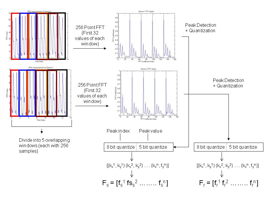 Signal processing for extracting common features from physiological signals collected by different sensors on the same human body